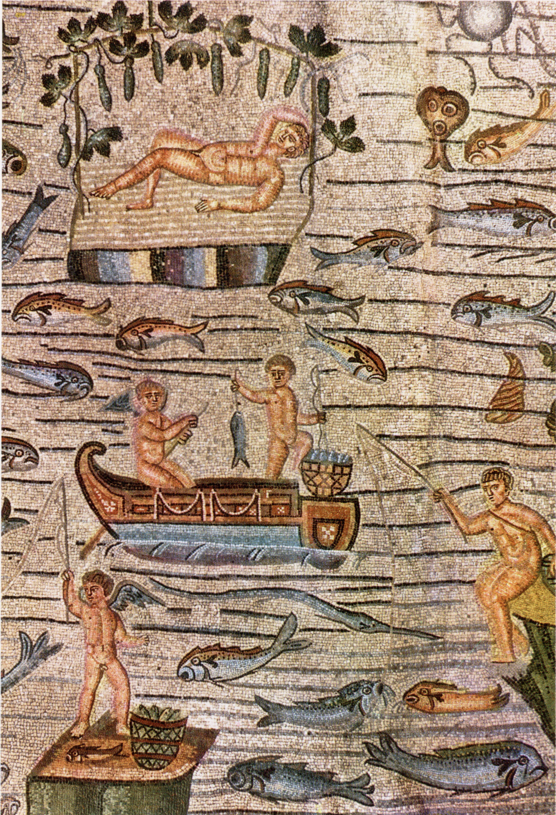 Aquileia - Basilica - Mosaico con Riposo di Giona e scene di pesca